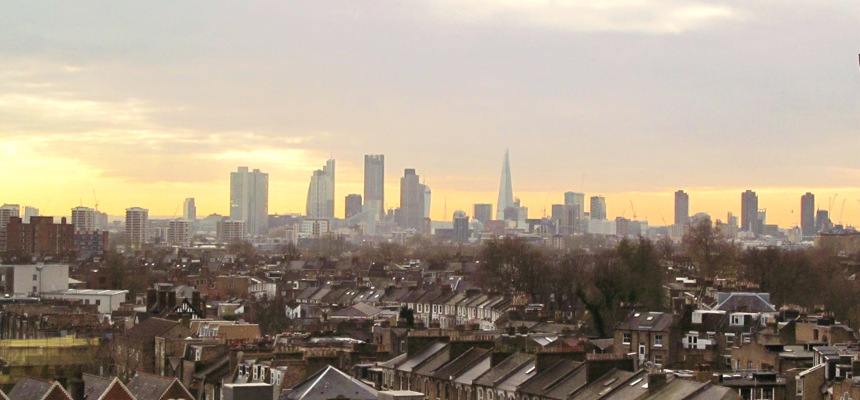 View of London (skyline)